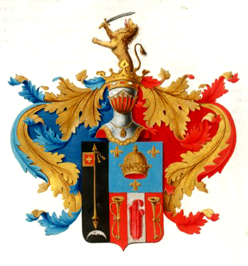 Coat of Arms of Chelishchevy family